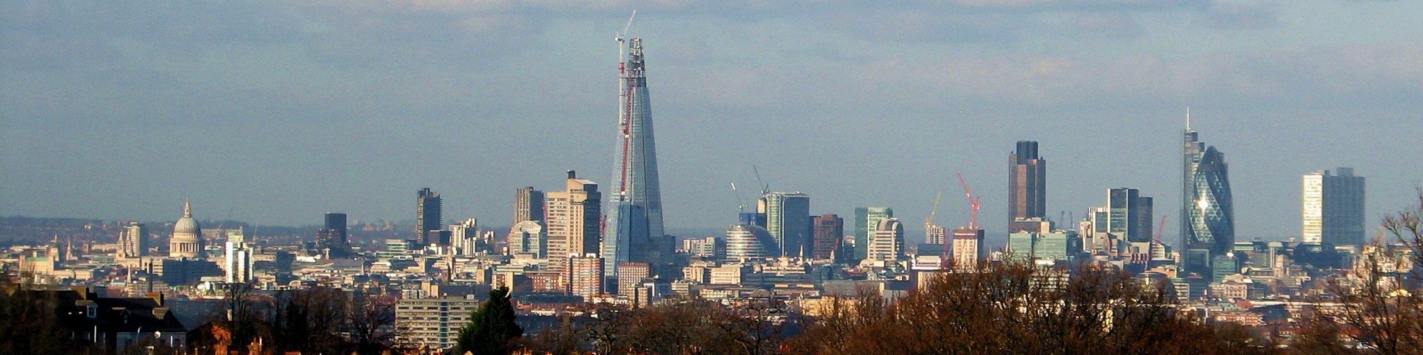 The Shard visible on the City of London skyline, seen from Forest Hill in 2012.